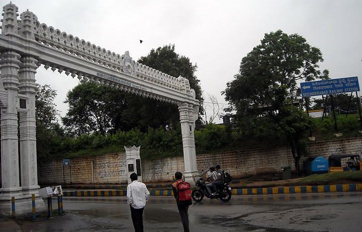 The back gate of Secunderabad Railway Station.